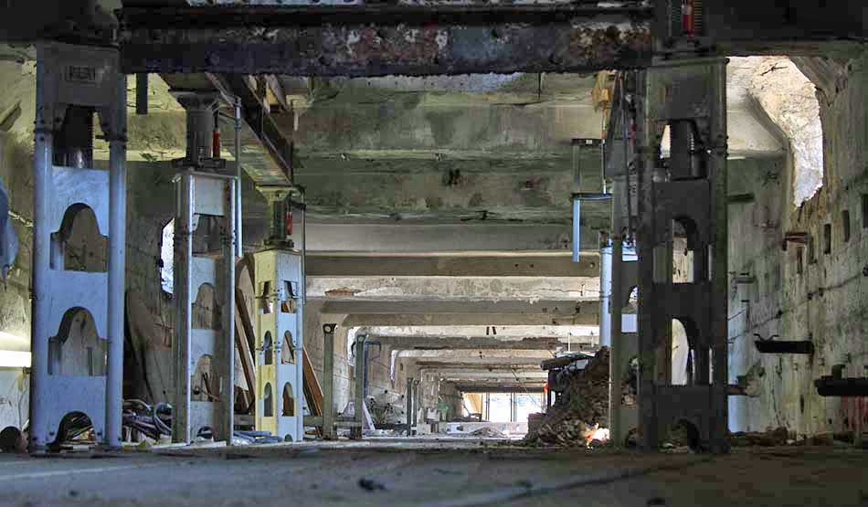 Frankfurt central station. View towards the apron in the catacombs under track 12/13 during renovations in 2010.